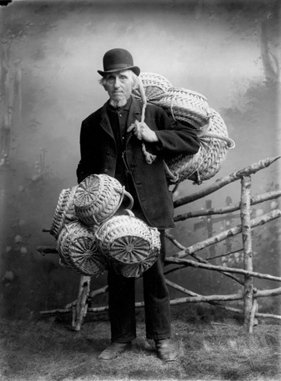 Ola Petterson, Sweden Basket maker, Photo from 1910